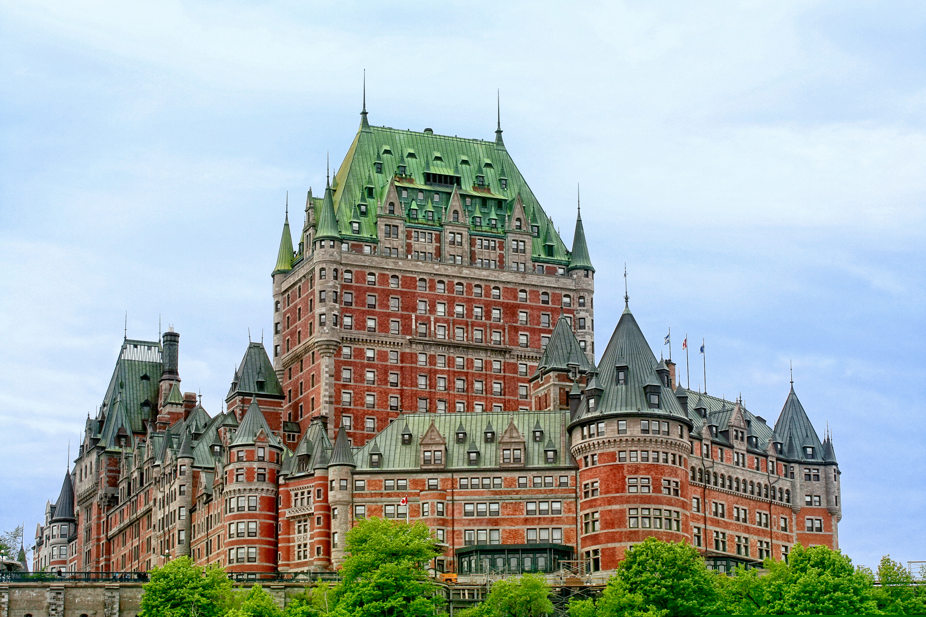 The Château Frontenac in Québec City, Canada.